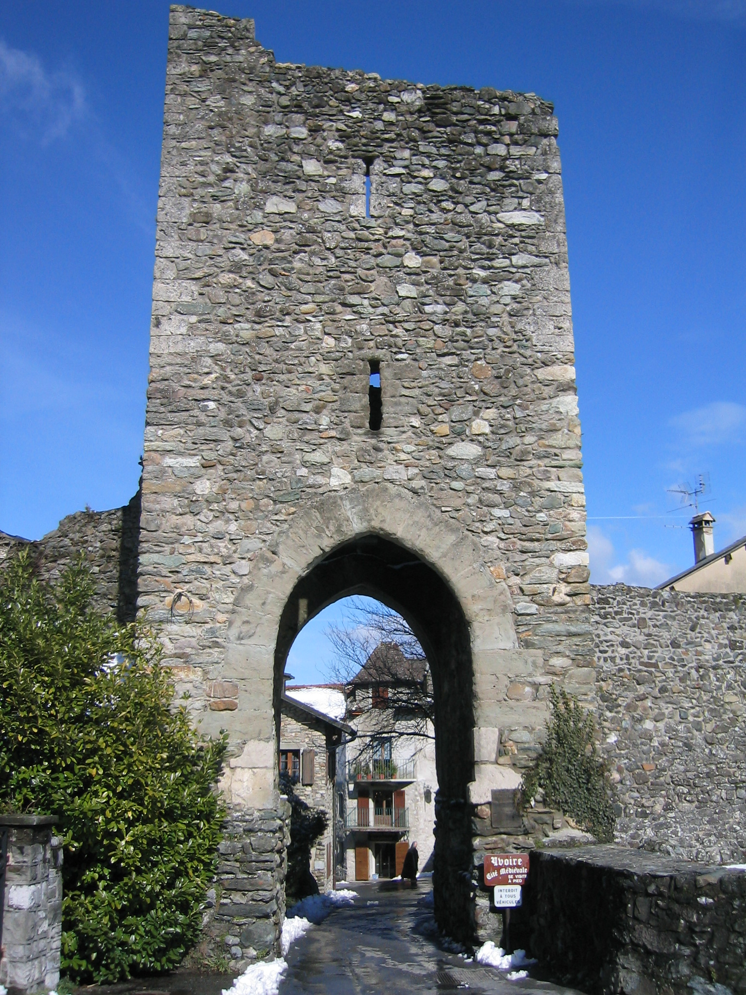 Medieval entrance at Yvoire (Haute-Savoie, France)